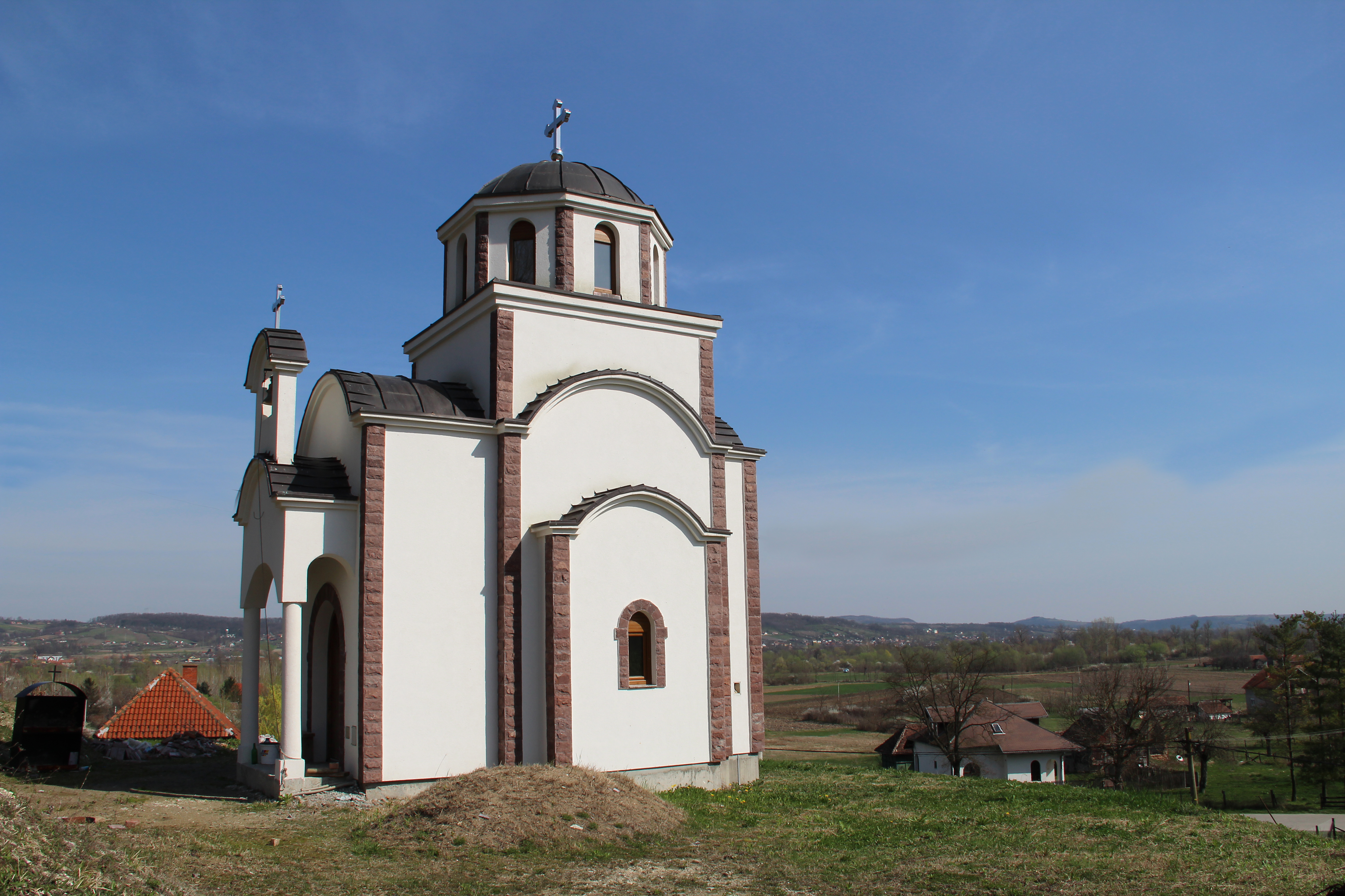 Šušeoka village - Municipality of Valjevo - Western Serbia - Church of St. George 2